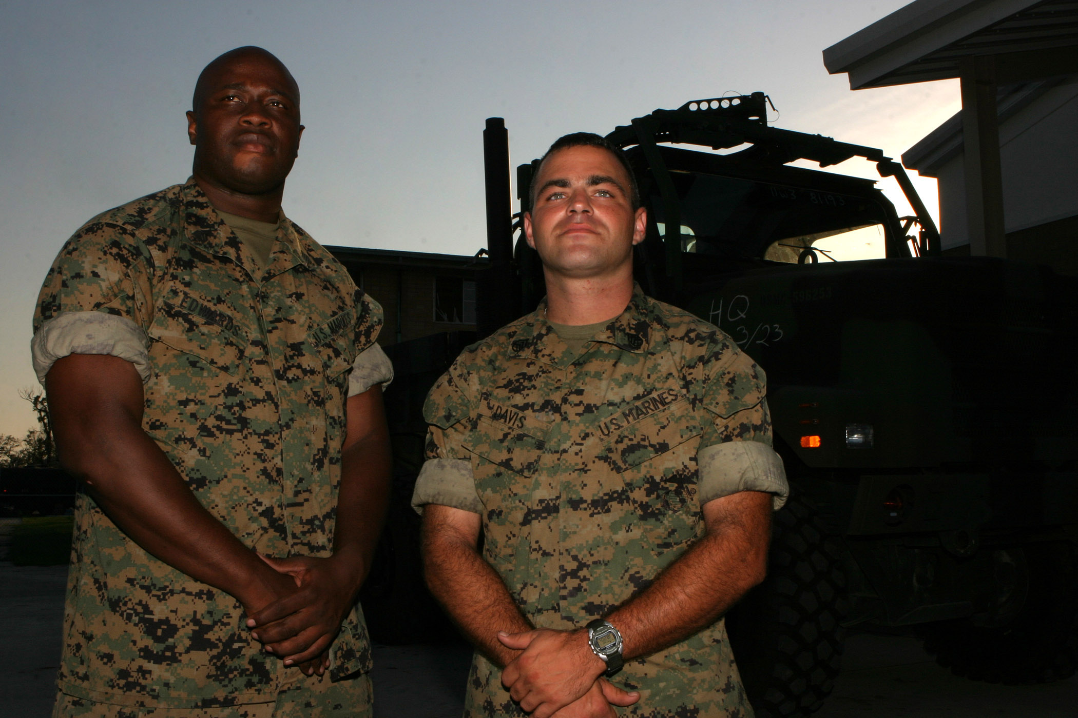 Sgt. Lorenzo L. Edwards (left) and Staff Sgt. Matthew J. Davis, both inspector instructor staff for 3rd Battalion, 23rd Marine Regiment, volunteered to work with the air station's emergency operations center during Hurricane Katrina. Serving as the only Marines aboard the air station, Davis and Edwards supported area clean ups, relief conovys and assisted the 24th Marine Expeditionary Unit Command Element